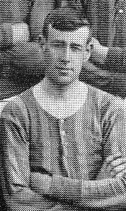 James Swarbrick while with Brentford FC in 1904/05